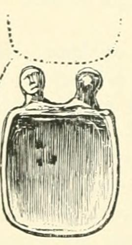 Title: Handbook to the ethnographical collections Year: 1910 (1910s) Authors: British Museum. Dept. of British and Mediaeval Antiquities and Ethnography Joyce, Thomas Athol, 1878-1942 Dalton, O. M. (Ormonde Maddock), 1866-1945 Subjects: Publisher: (London) : Printed by order of the Trustees Text Appearing Before Image: Fig. 228.—Arrow-heads of antlei-, one withstone bhule. Eskimo. of canoo. Women use a roomy open skin boat (iwtial) shai)ed likeu trougli, and capable of holding aljout twenty j)eople. With theumia/c single-bladed paddles are emi)loyed, anil a low lug-sail madeof strii)S of walrus-intestine sewn together is sometimes hoisted. Fig. 229.—Canning on ivory ^depicting a wliale-liuiit. Eskimo. Text Appearing After Image: Fig. 230.—Objects from the Eskimo, a. Ivory lamp-feeder, h. Antlerclub: c. Tobacco-pipe of ivory, d. Snow-knife of bone. e. Gaff for salmon./. Arrow, g. Slate hide-scraper, h. Iron hide-scraper. NORTH AMEKICA 253 On land, the Eskimo travel on snow shoes or in wooden sledgesof various forms the runners of which are usually covered withl^lates of bone. They are drawn by teams of native dogs harnessedwith light seal-hide traces, The Eskimo are possessed of great mechanical and considerableartistic skill. Before iron was known to them they made flintspear and arrow-heads, flaking them not by percussion, but bypressure applied by a horn implement. Their carving is doneby means of knives with curved blades, and holes are drilled bya bow-drill, the bow of which is usually made of bone or walrus-ivory, while the shaft is held steady not by the hands but by theteeth, between which a wooden mouthpiece is held (see fig. 7, e).On these bow-drills and other utensils hunting and other scenes areo